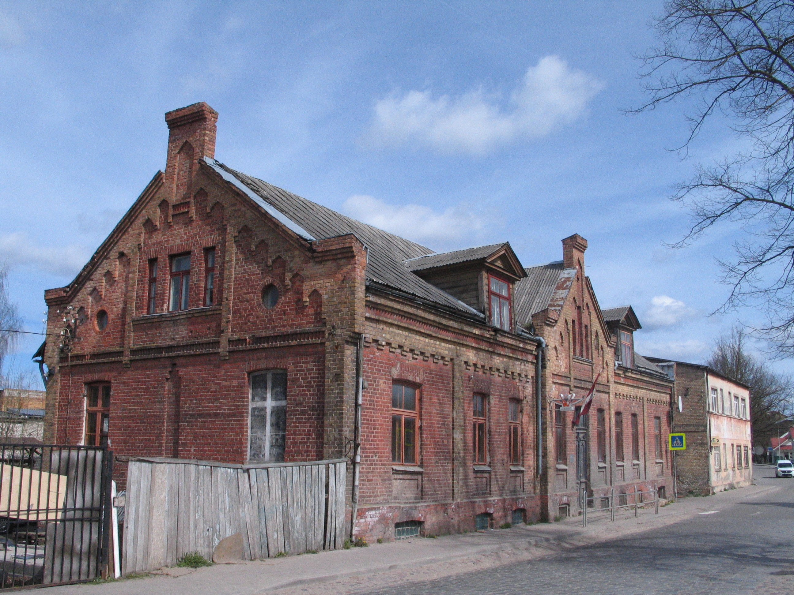 The building at Dobeles Street in Jelgava